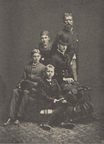 Leopold , Prince of Hohenzollern with his wife Antónia and their 3 sons